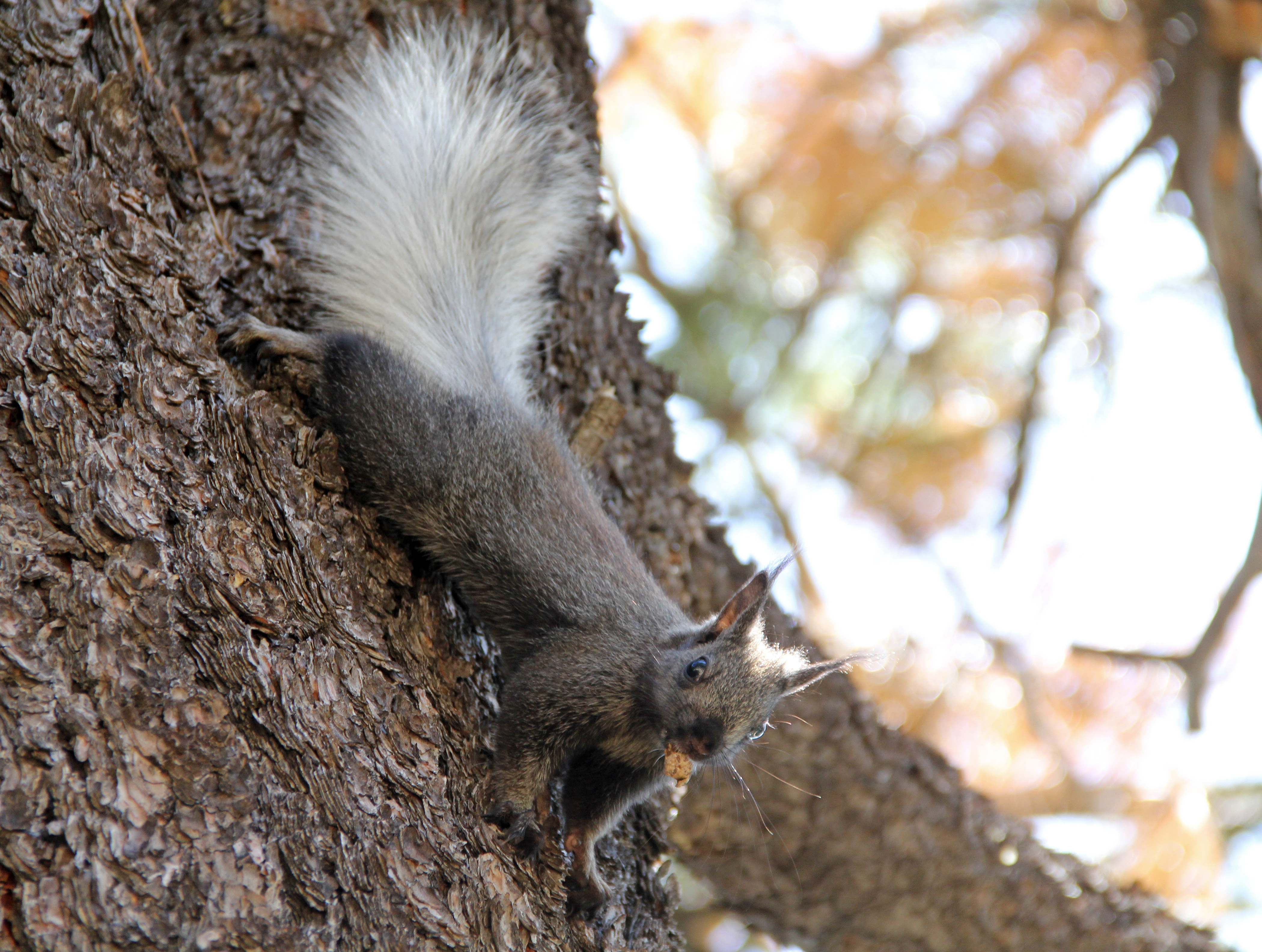 (4200 x 3169) The Kaibab Squirrel (Sciurus aberti kaibabensis) is found only on the Kaibab Plateau in Northern Arizona, including the North Rim of Grand Canyon National Park. The squirrel is entirely dependent upon Ponderosa Pines for food and habitat. Photo taken near the Grand Canyon Lodge. NPS Photo by Allyson Mathis